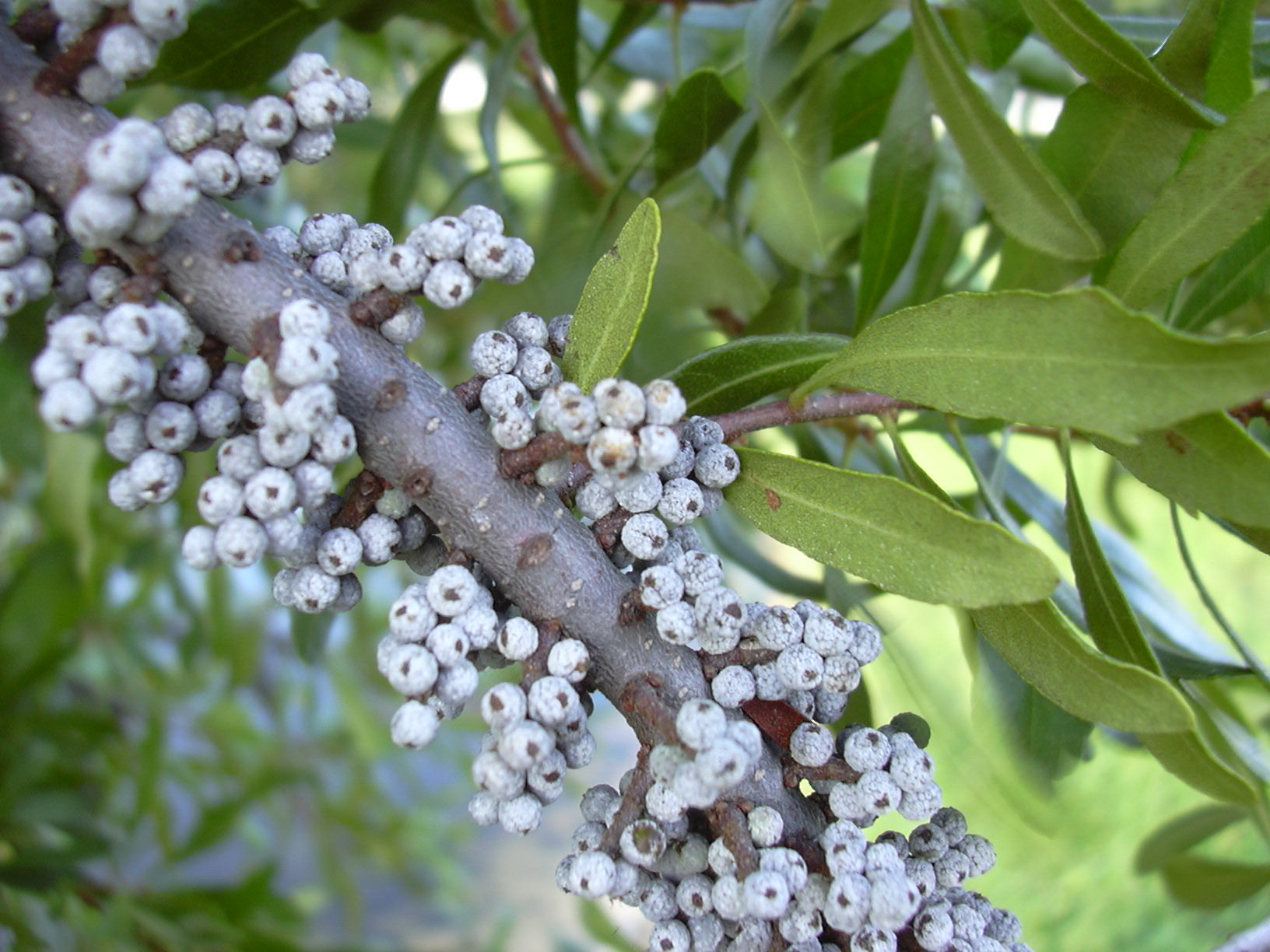 Morella cerifera (fruits). Location: Florida, Sarasota